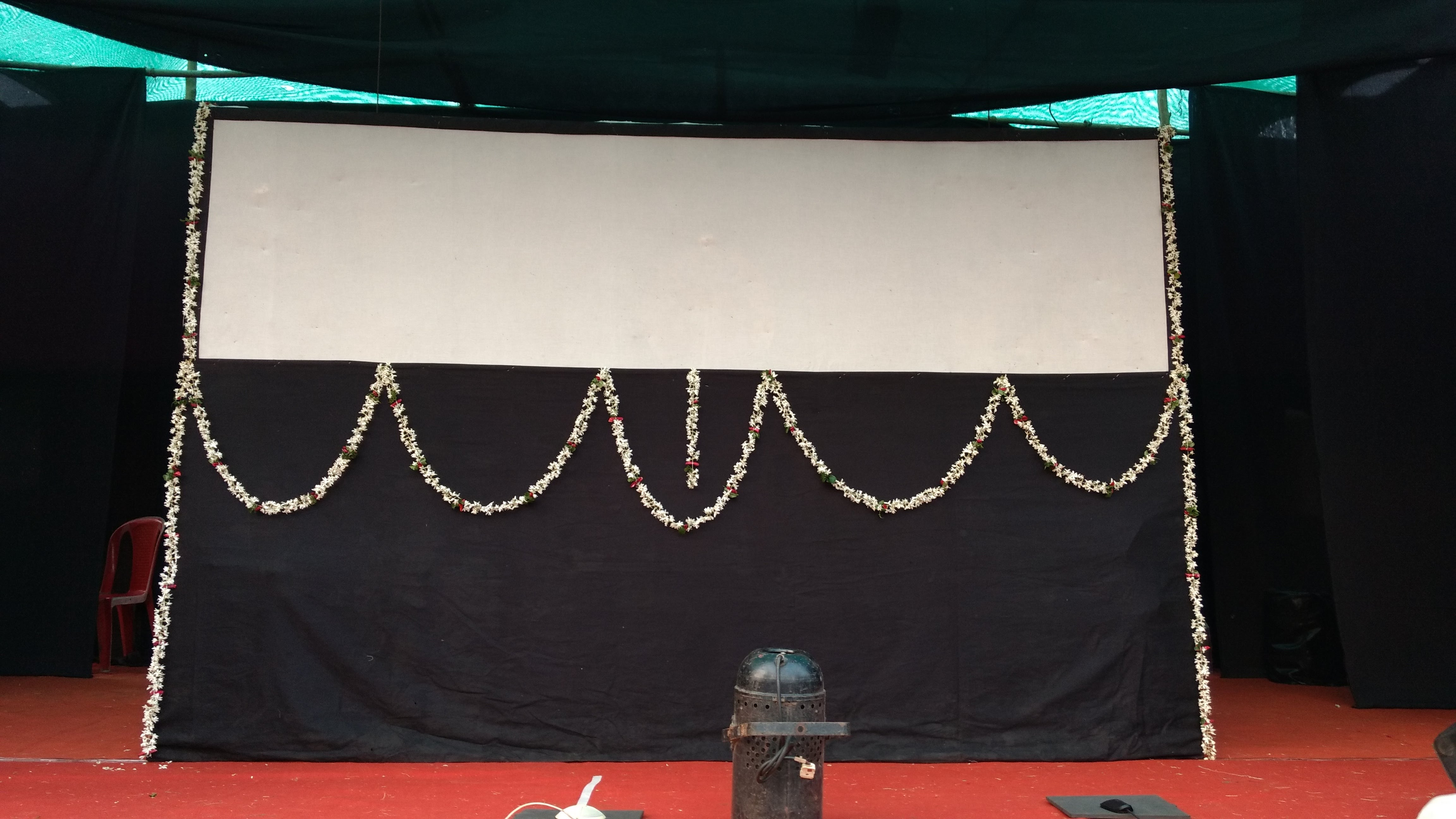 Koothumaadam on Stage.